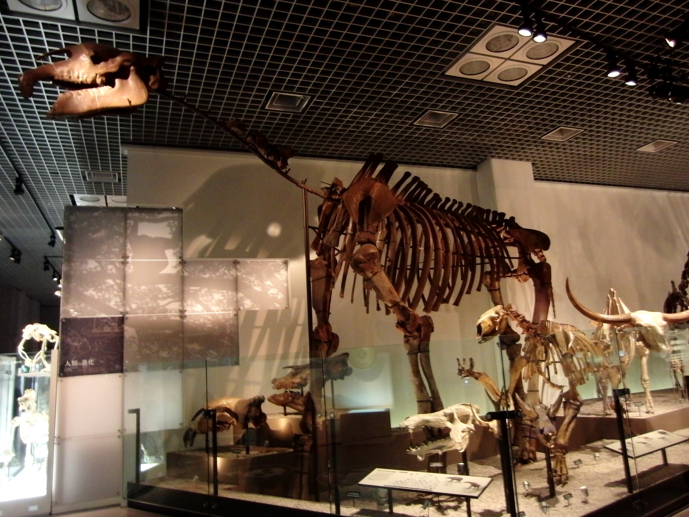 Skelton of Indricotherium (Indricotherium transouralicum). Exhibit in the National Museum of Nature and Science, Tokyo, Japan.